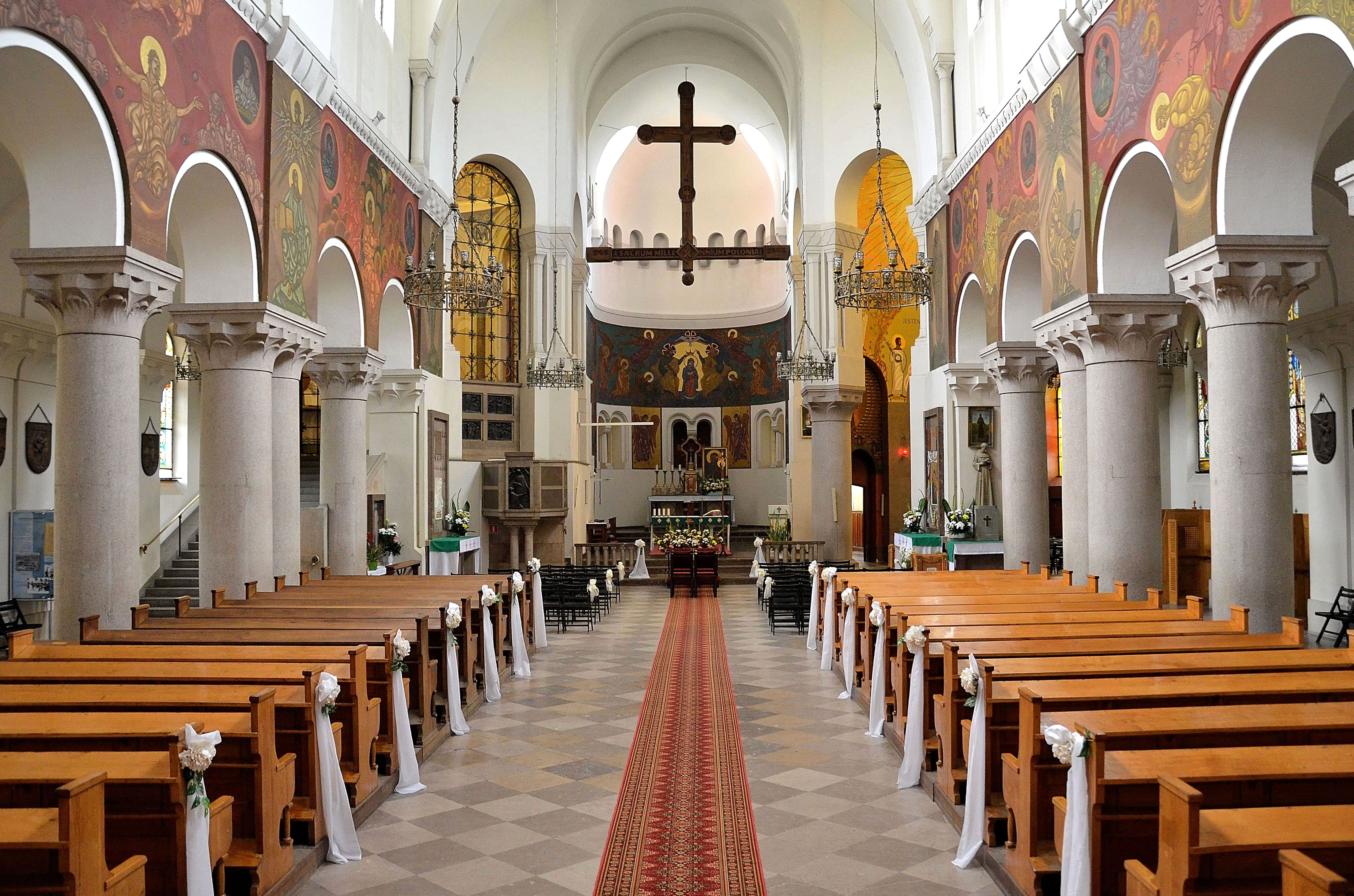 Interior of the Church of the Immaculate Conception of St. Mary at 38 Grójecka Street in Warsaw (listed in the Register of Historic Monuments on 1.07.1965, reference no. 670)